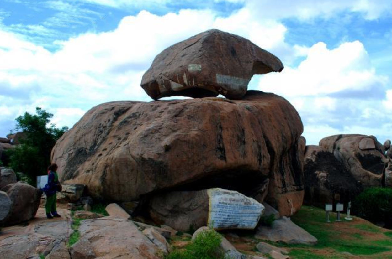 Pakilgundu Gavimath Ashoka Minor Edict